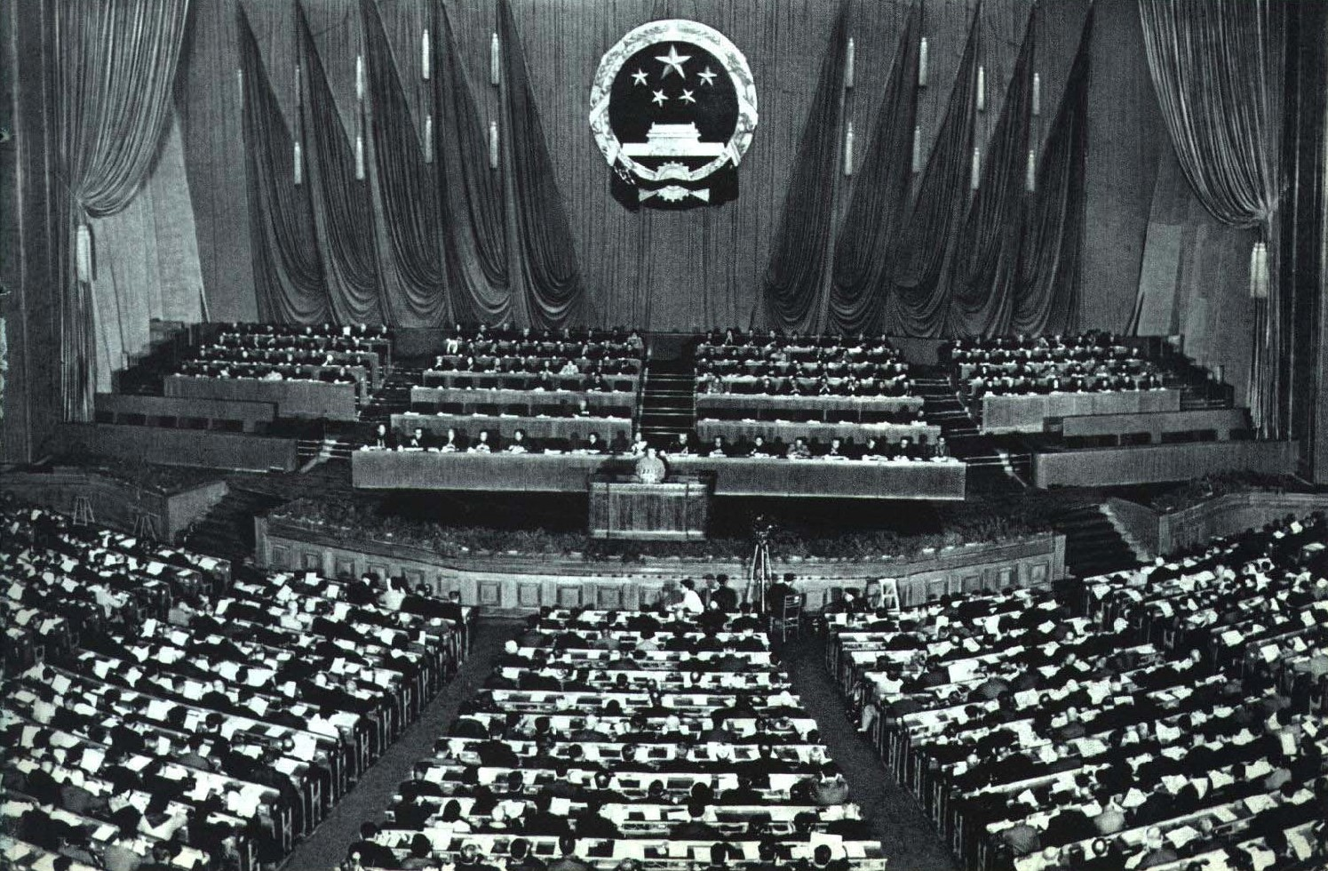 1965-02 1965 第三届全国人大第一次会议2